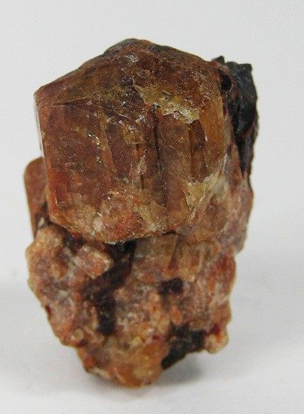 Willemite Locality: Franklin Mine, Franklin, Franklin Mining District, Sussex County, New Jersey, USA (Locality at ) Size: 2.9 x 1.8 x 1.4 cm. An old-time classic from the Franklin Mine of a very sharp, lustrous, orangish-brown willemite rhombohedron on willemite with a bit of franklinite and zincite. Accompanied by an expertly handwritten, faded label from an older collection. The collection this came out of was a museum stash dating to prior to World War I. Outstanding green fluorescence.